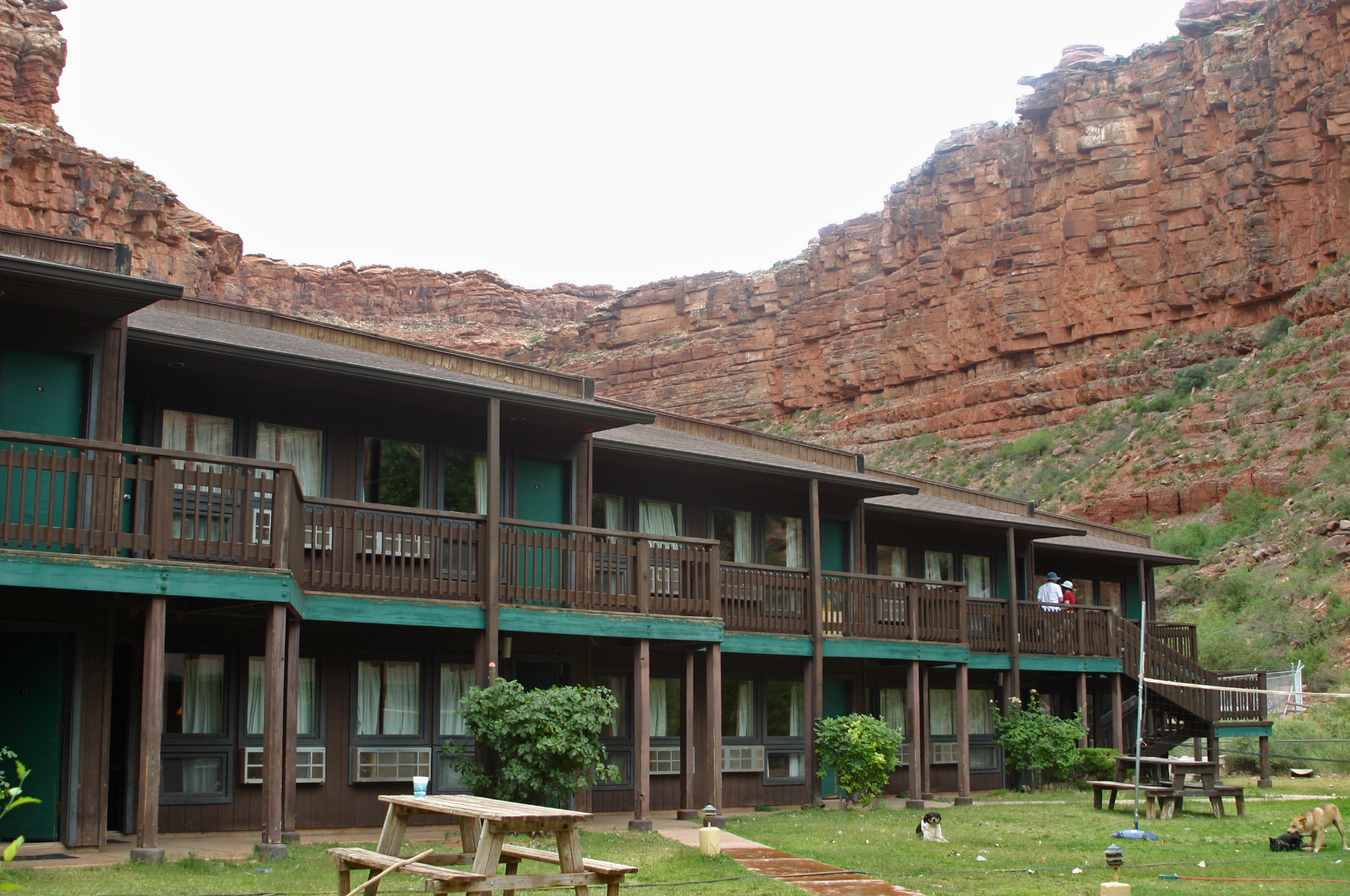 Guest rooms at the Havasupai Lodge in Supai.